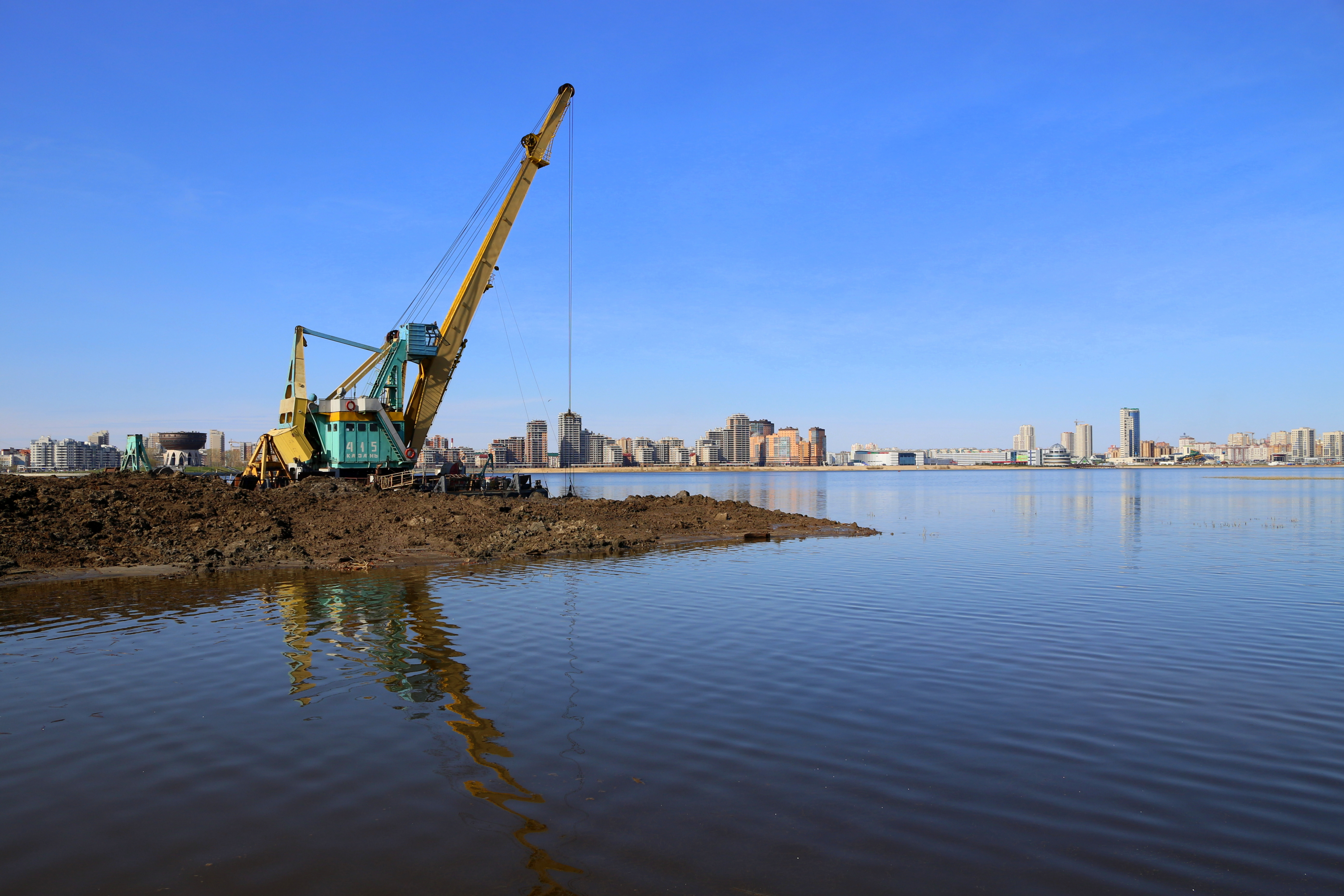 High Diving trampoline builds for 16th FINA World Championships on Kazan-river.